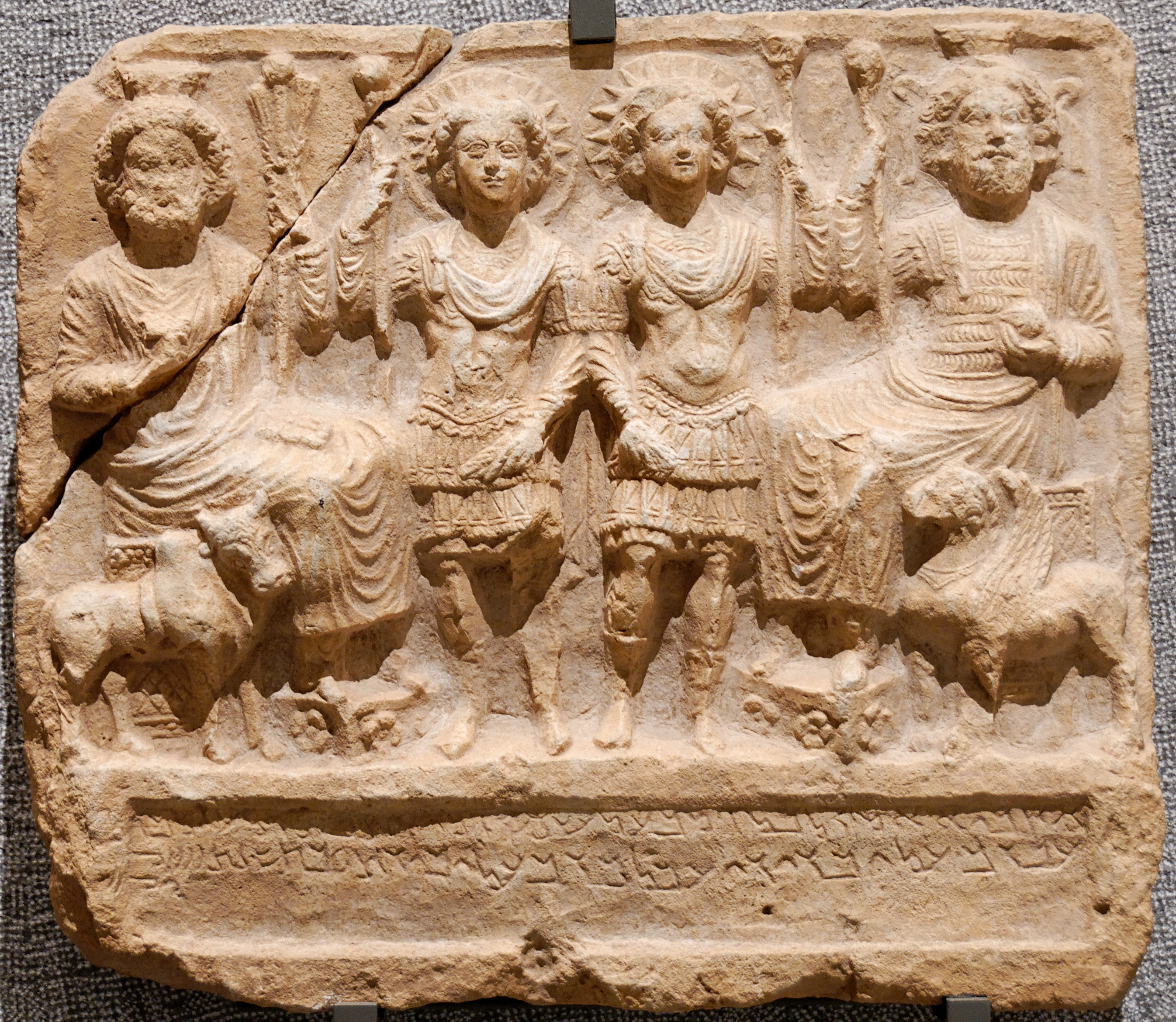 Relief dedicated by Ba’alay to Bel (right), Baalshamin (left), Yarhibol and Aglibol.[1]